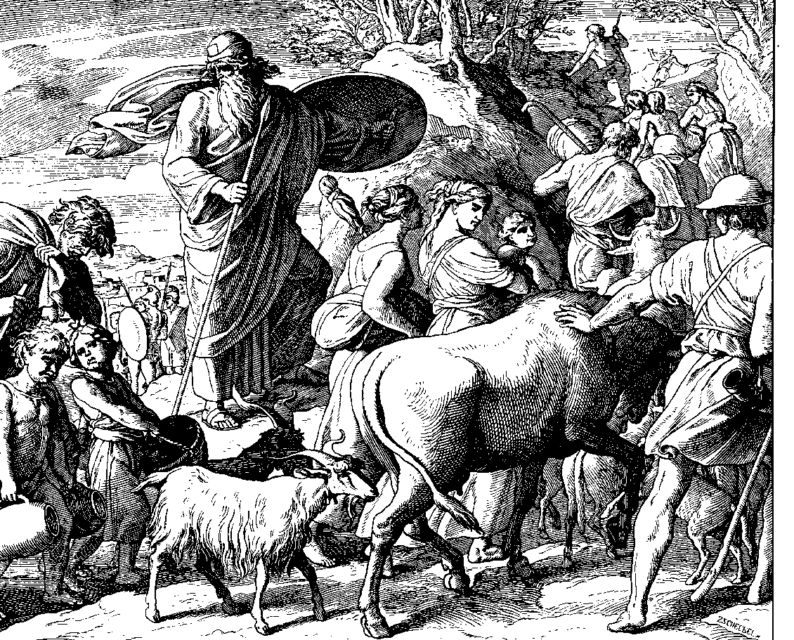 Woodcut for "Die Bibel in Bildern", 1860.